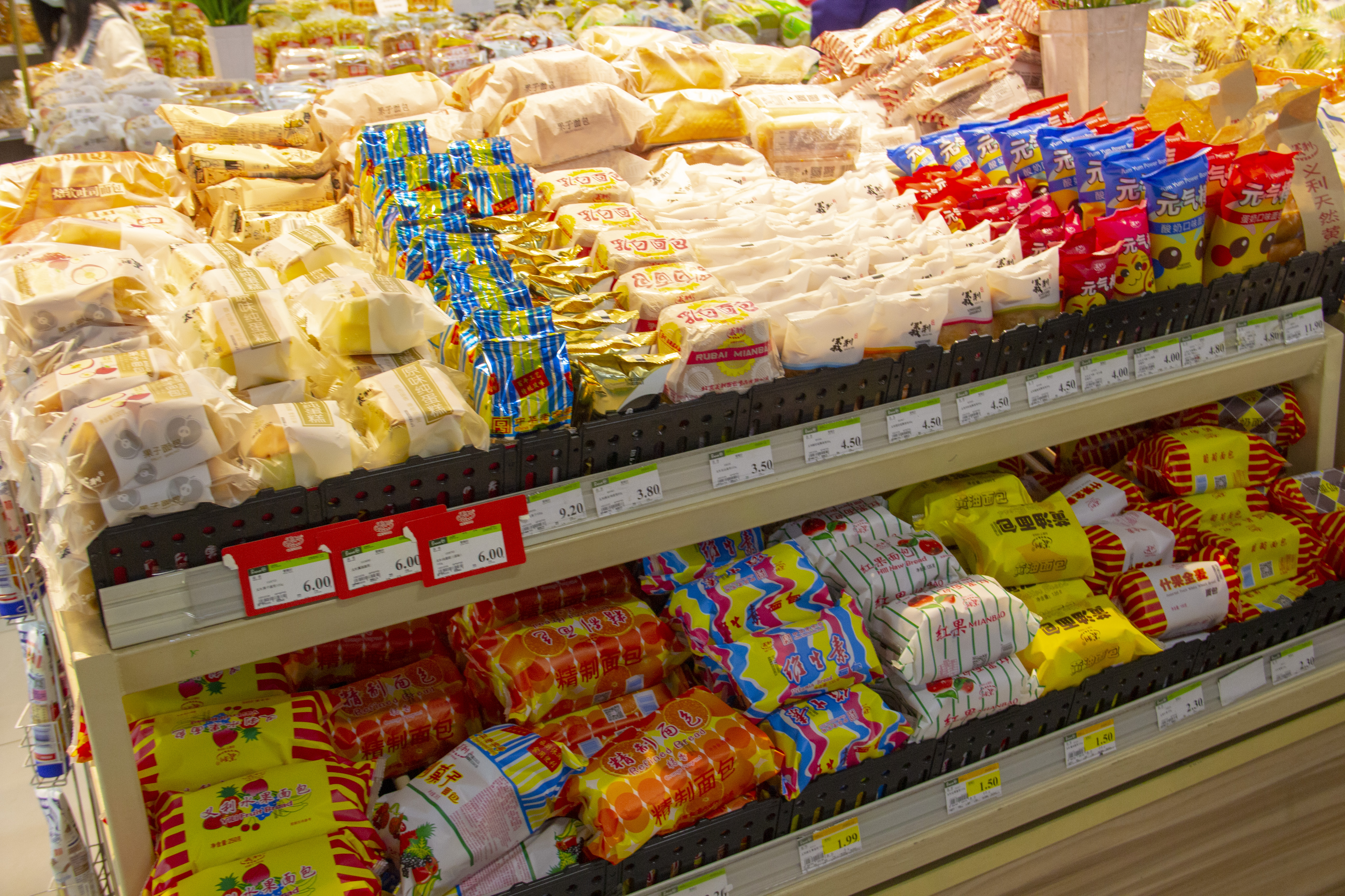 Yi Li